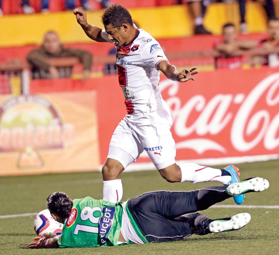 Anthony Vargas from Belén and Armando Alonso from Alajuelense.